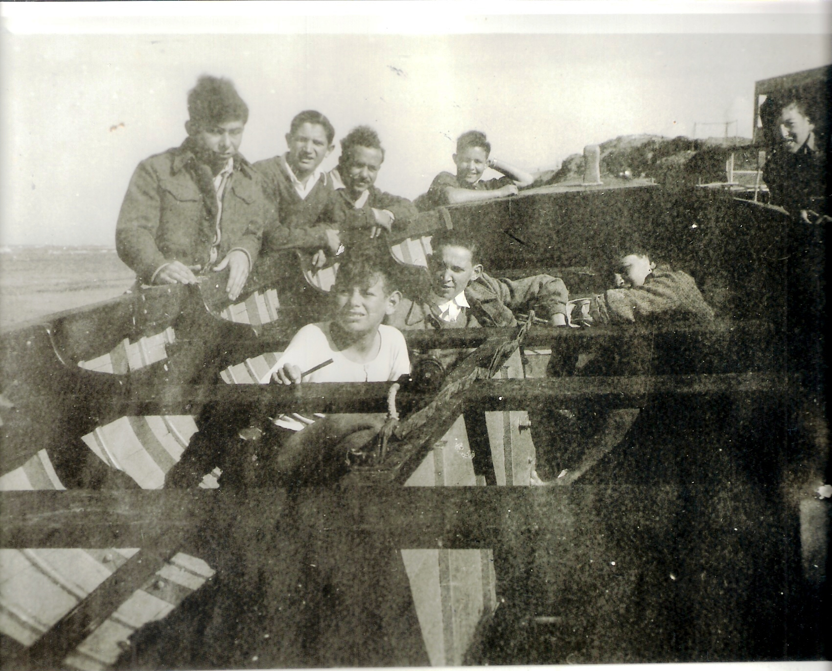 Rowing boat ashore